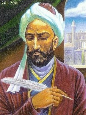 A portrait of Nasraddin Tusi